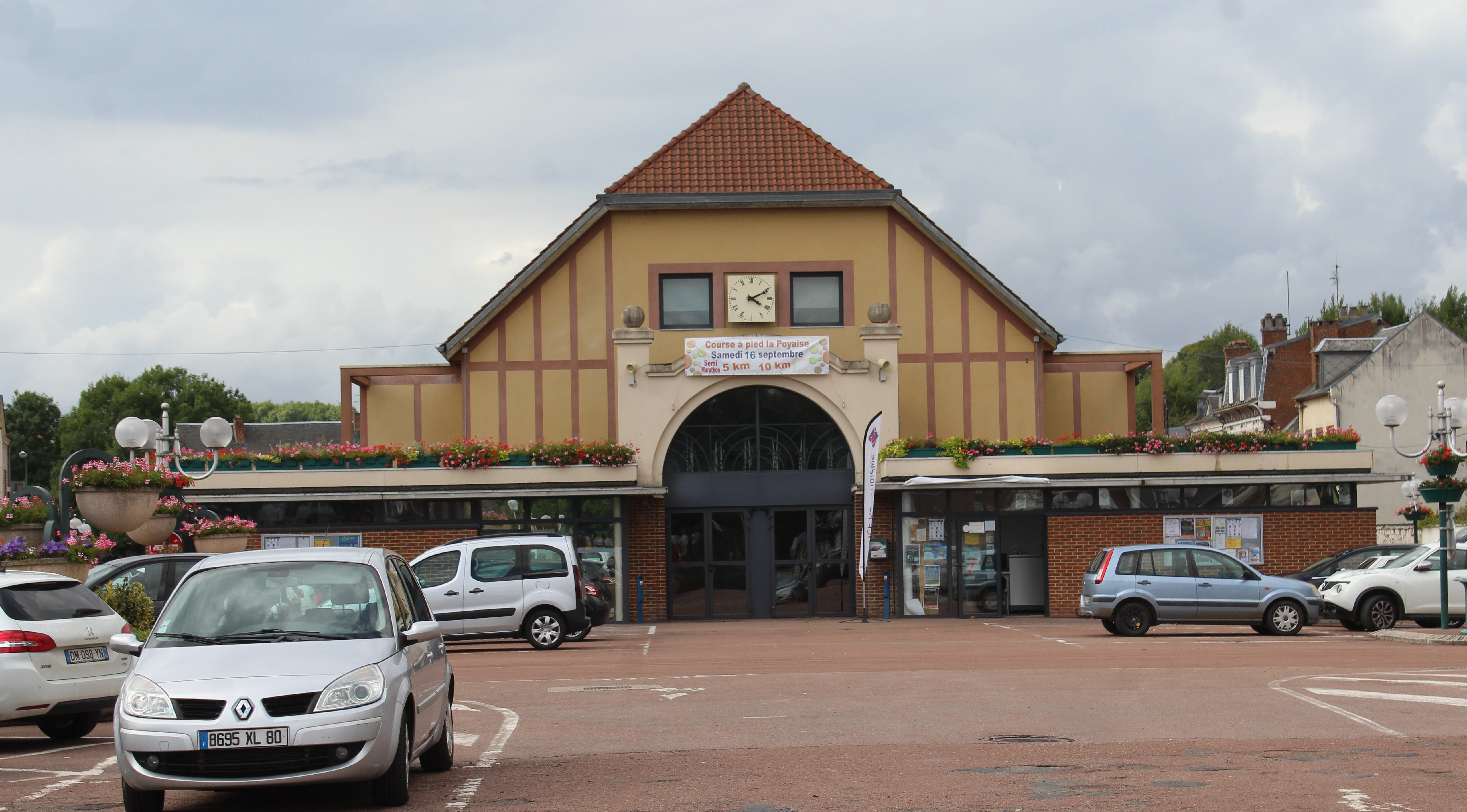 Poix-de-Picardie, market hall